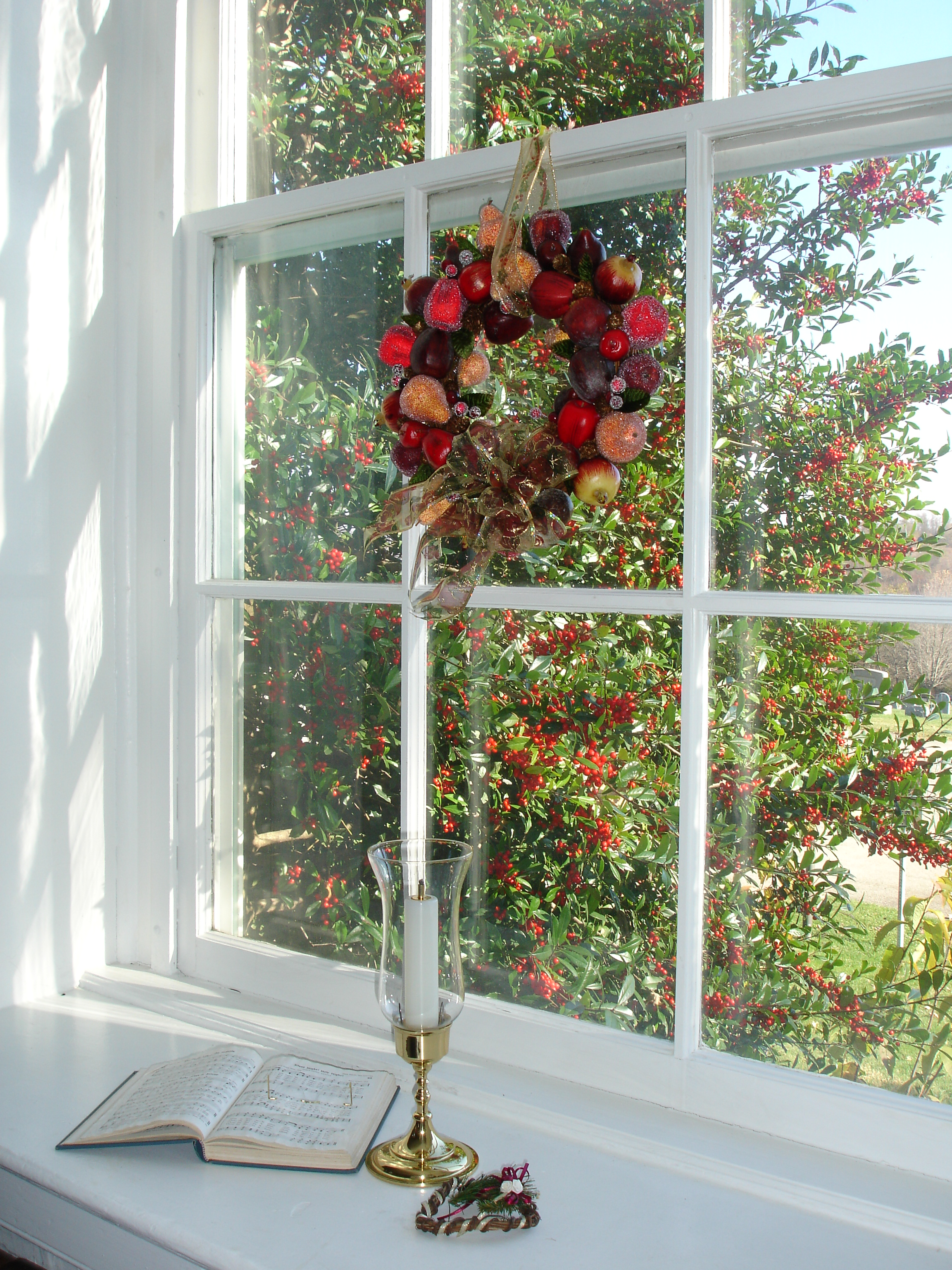 Christmas window decorations.